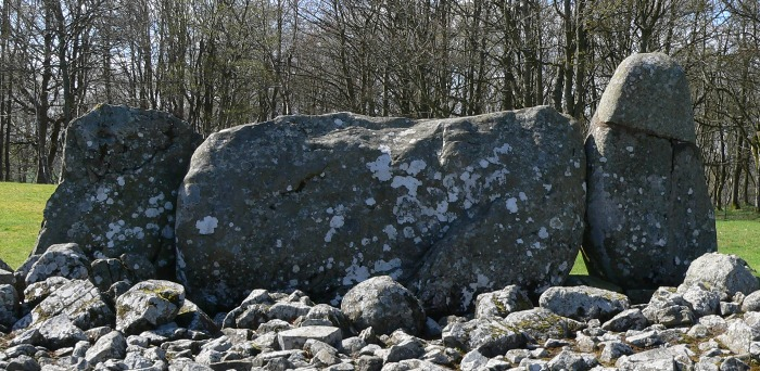 Loanhead Stone Circle, Aberdeenshire, Scotland